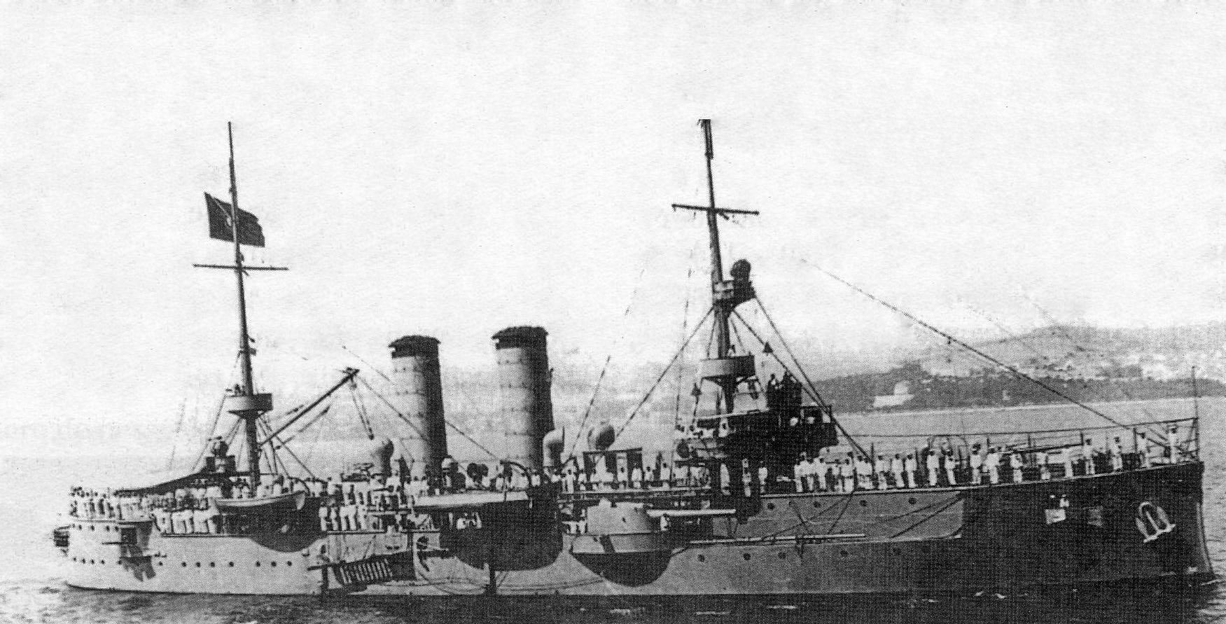 Vasco da Gama battleship (1876 - 1936) of the Portuguese Navy. Scan from a printed picture from Book "História de Portugal" vol. VIII, Quidnovi edition.